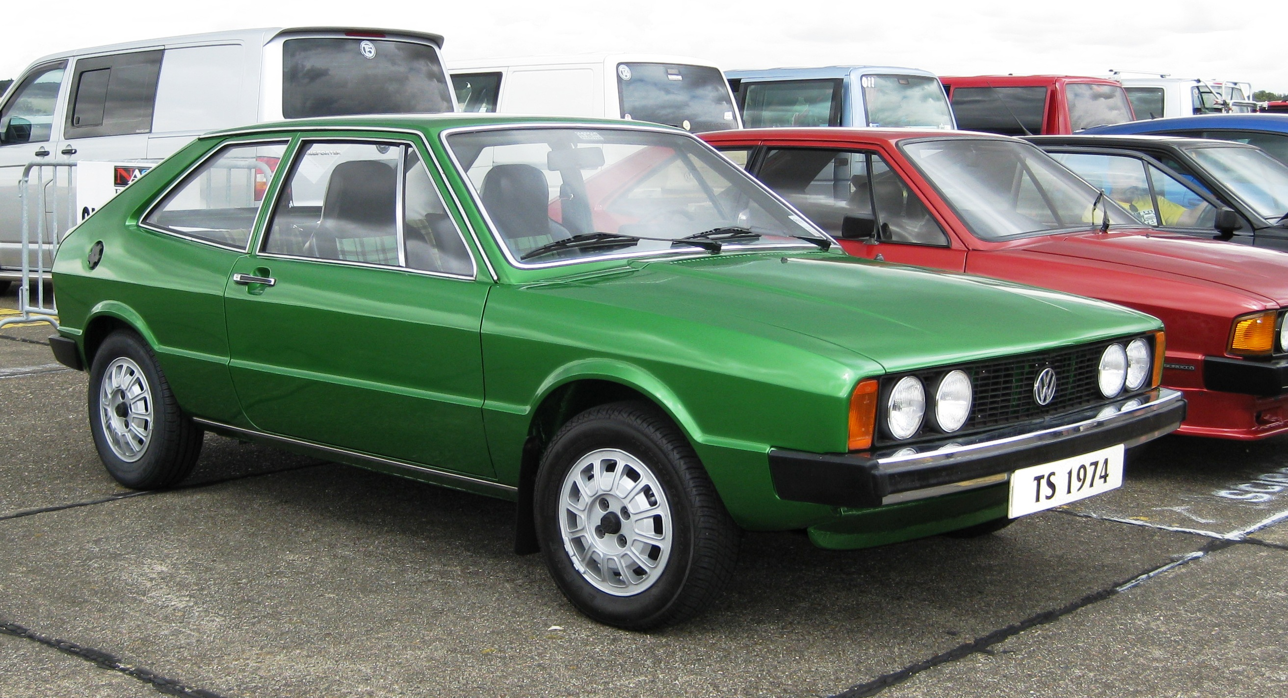 Volkswagen Scirocco Mk I 1974. Visually this car faithfully reflects the way the car looked when new in 1974. The photographer remembers the sarcastic reactions of some conservative motoring journalists in England to the (then) over-fashionable seat patterns. Twin windscreen wipers mark this out as a pre-1976 model. 1976 was the year in which the Scirocco, presumably inspired by the Citroen CX of the day, switched to a single front windscreen wiper (as on the red Scirocco in the background).